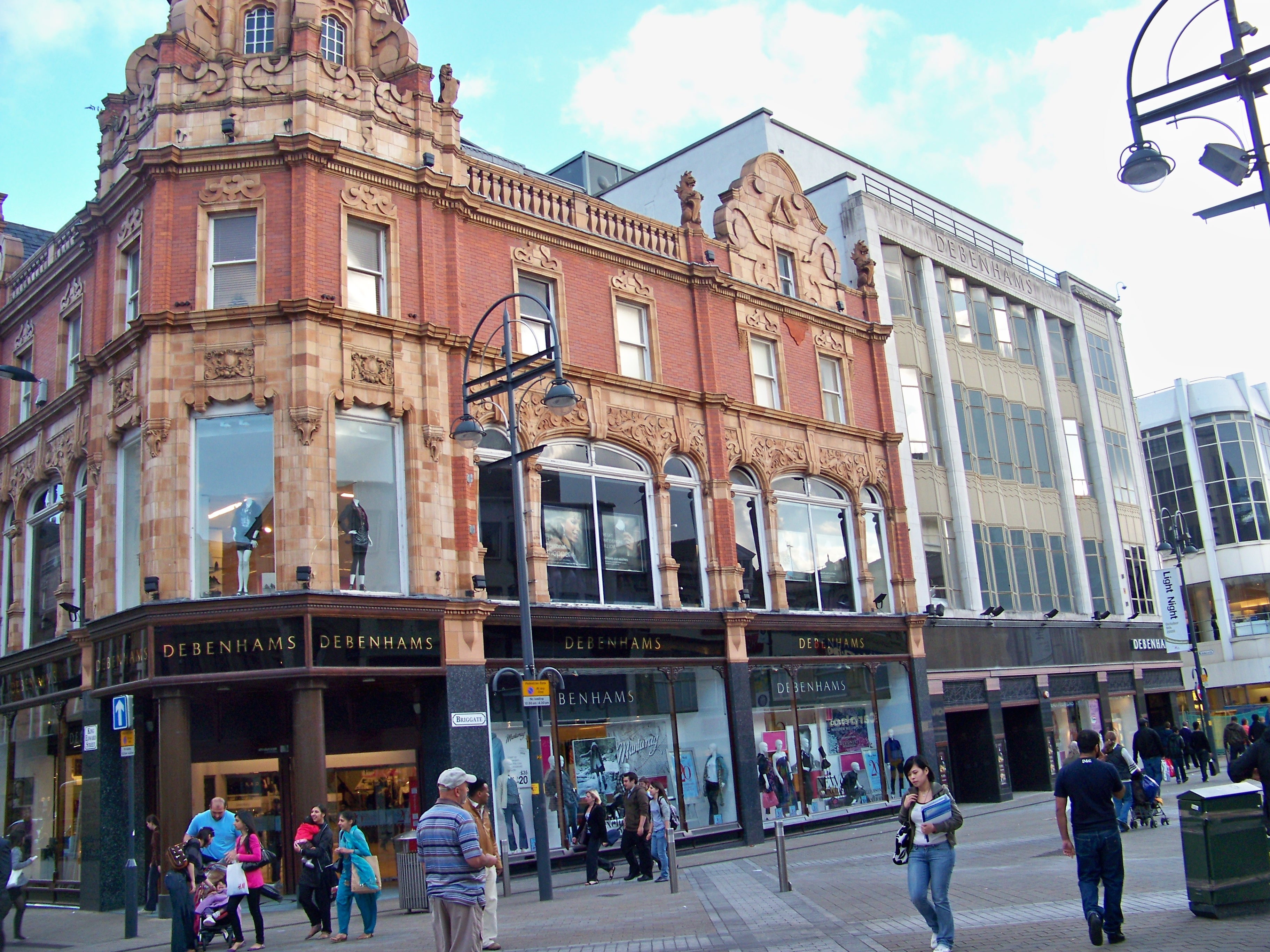 Debenhams, 121 Briggate, Leeds, West Yorkshire, seen from the northwest